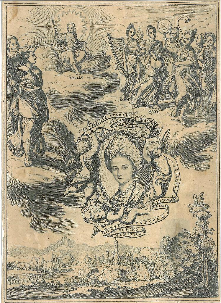 Apotheosis, vocalist Diamante Maria Scarabelli between Apollo and Muses